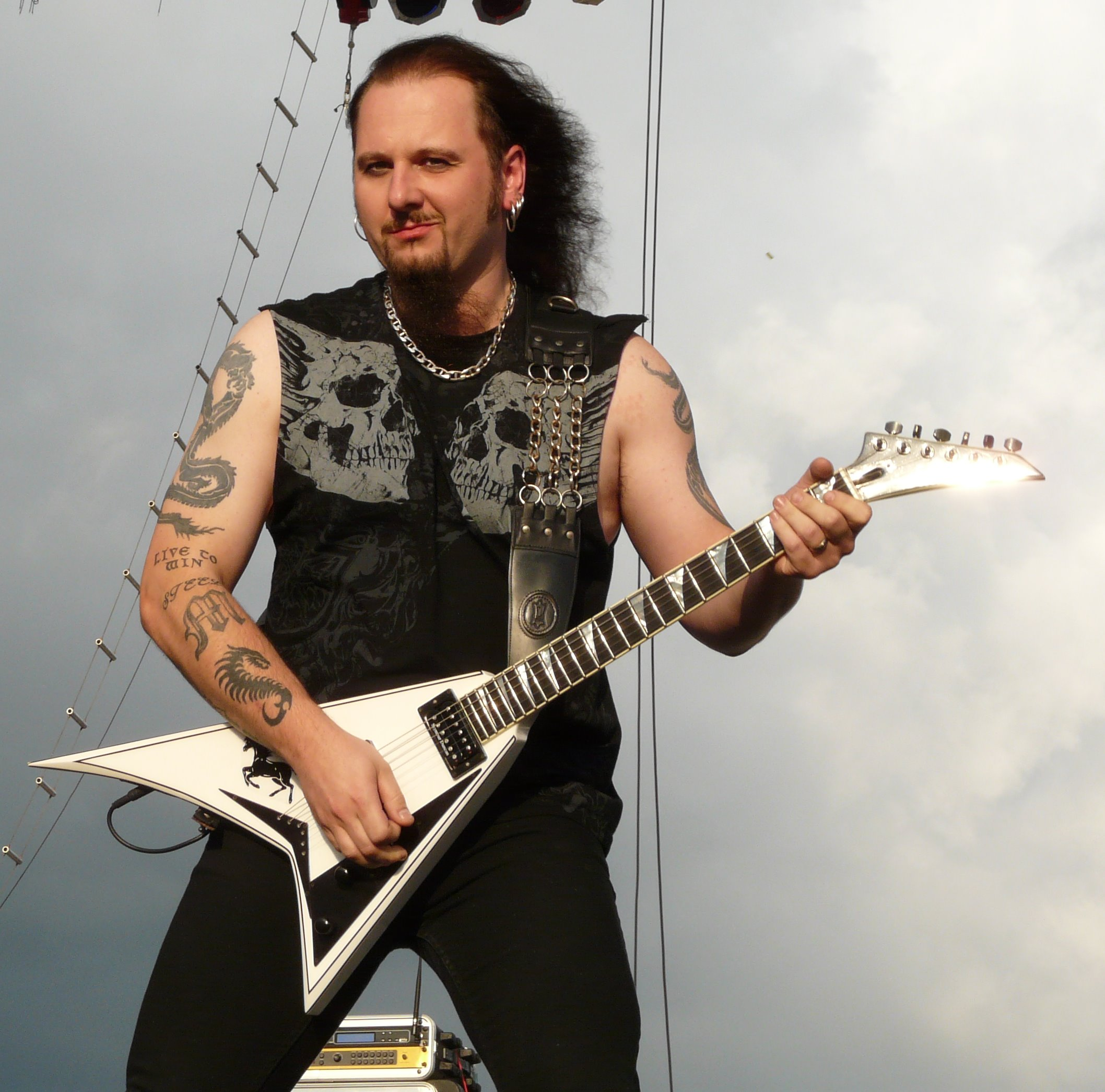 "Metal" Mike Chlasciak with Sebastian Bach at the Moondance Jam on July 11, 2008 in Walker, Minnesota PHOTO BY MATT BECKER